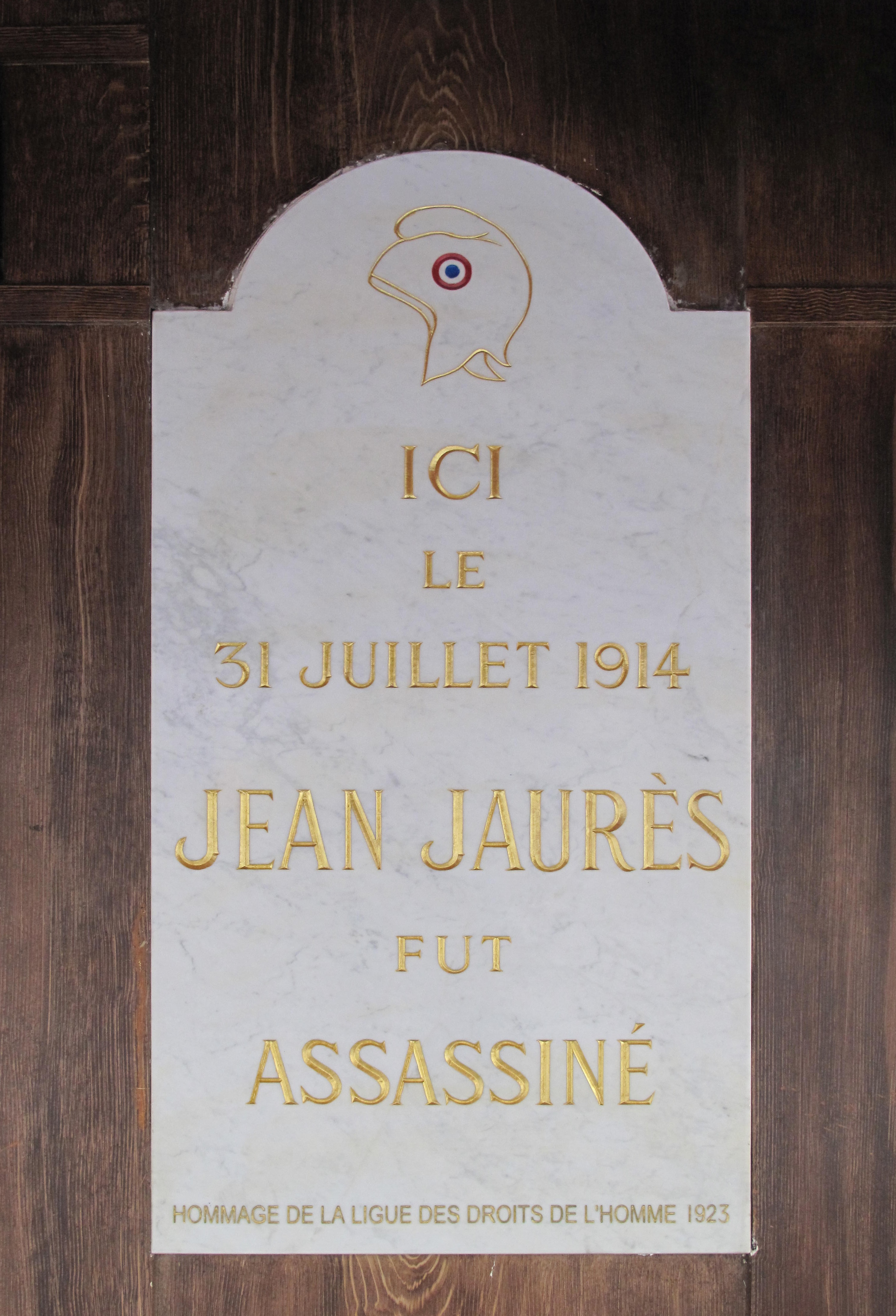 Plaque of the café du Croissant where Jean Jaurès was murdered on 7/31/1914 : 146, rue Montmartre, Paris 2nd arr.